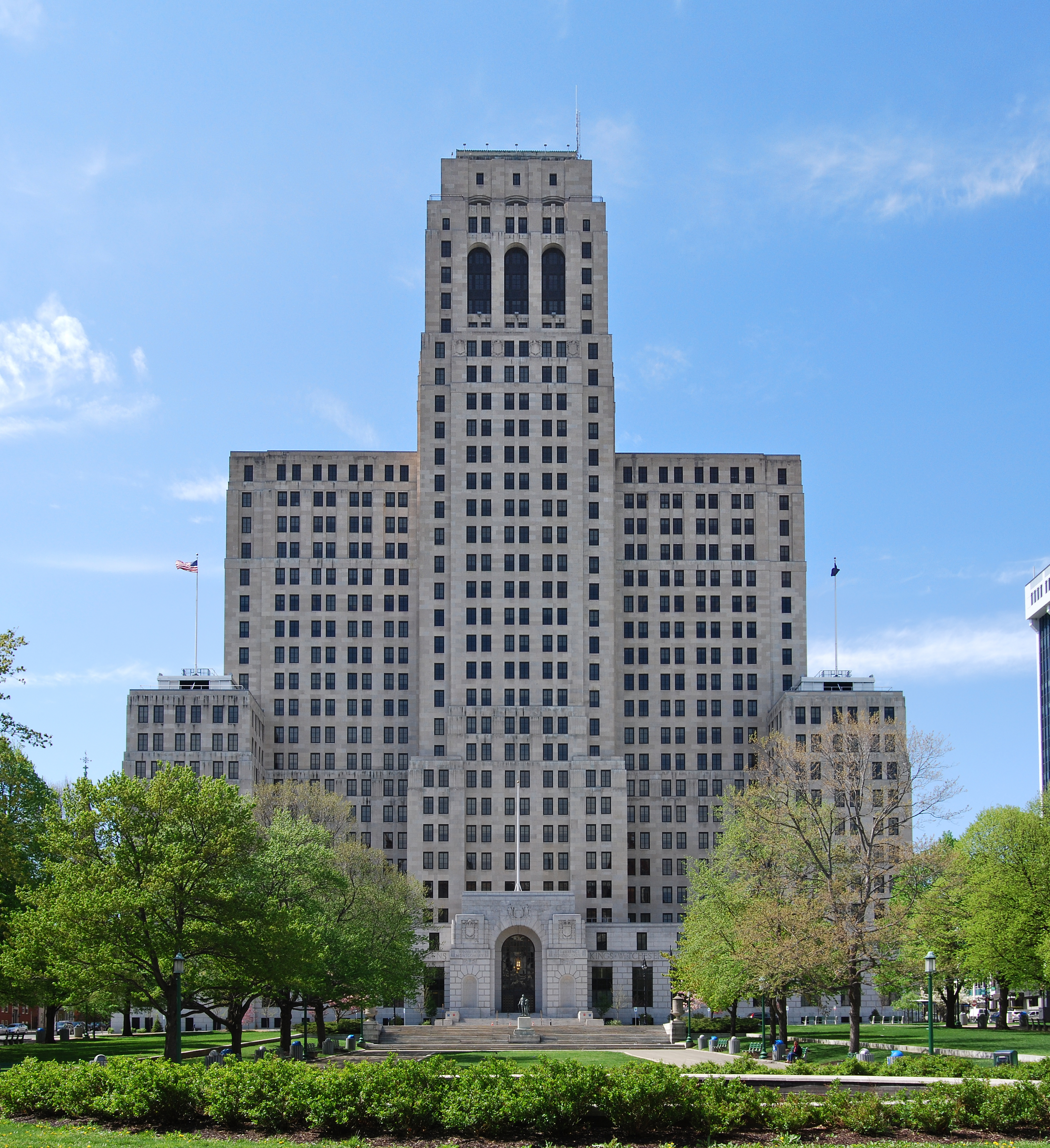 Alfred E. Smith State Office Building, located next to the Empire State Plaza in Albany, New York